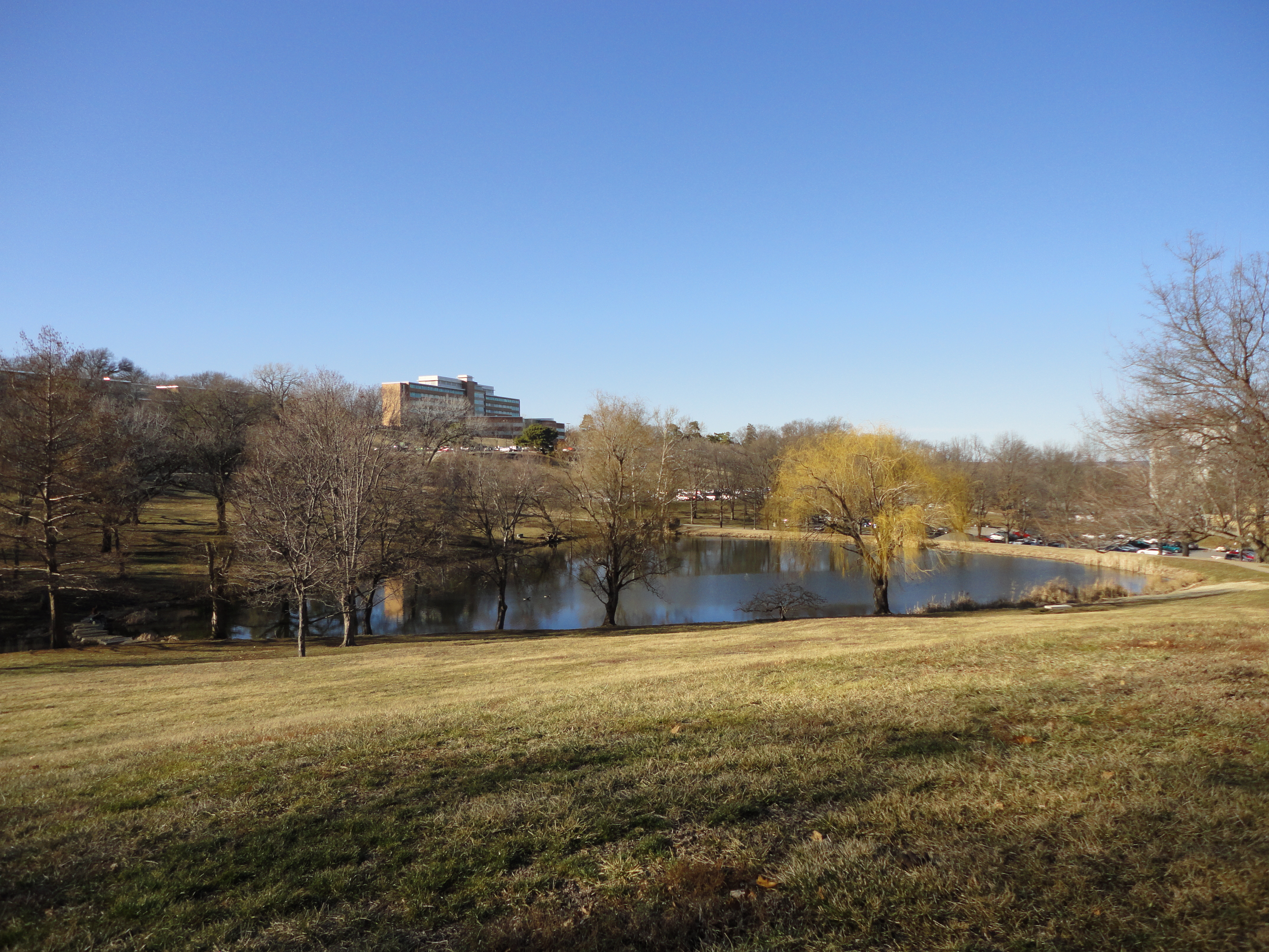 Campus Lake